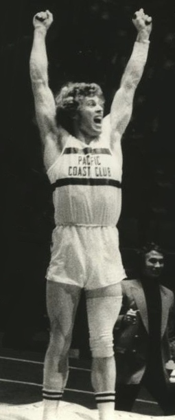 1973 Press Photo Steve Smith at 66th Millrose Games after winning pole vault